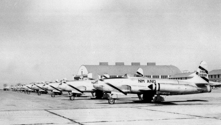 U.S. Air Force Lockheed F-80B Shooting Star fighters from the 188th Fighter Squadron, New Mexico Air National Guard at Kirtland Air Force Base, New Mexico.